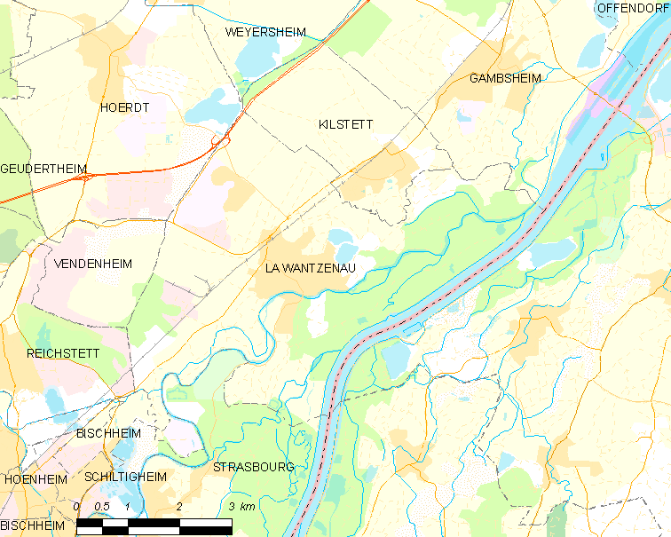 Map of French municipality